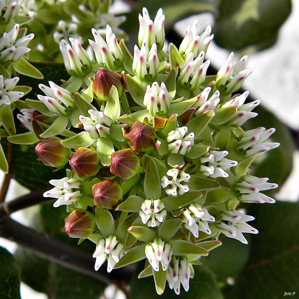 This is the rare and endangered Curtiss' Milkweed (Asclepias curtissii). This little plant is growing and blooming right in the middle of a sandy service road at Juno Dunes Natural Area (south). The road is traveled by a variety of benevolent county and federal vehicles, as well as maintenance and the "eradication" teams. Luckily, it is exactly in the middle of the path and so far has been safely passed over. Curtiss' Milkweed is endemic to Florida and one of our most beautiful species. Sky-blue lupine plants also love to grow in the middle of the sandy service roads.